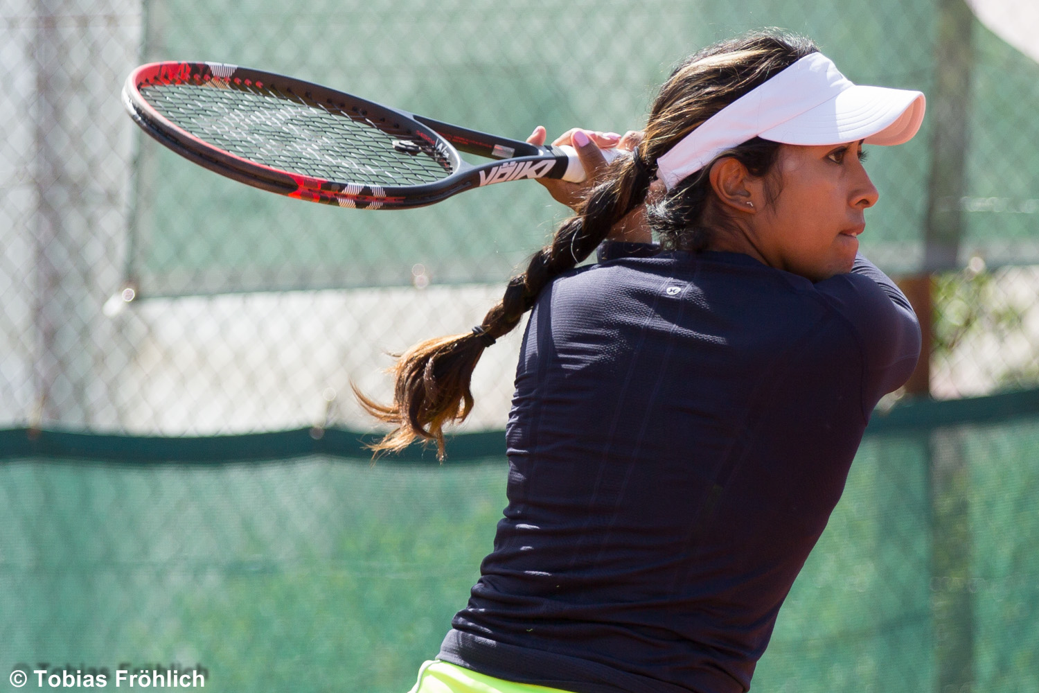 Sabrina Santamaria at a Challenger event in Germany.